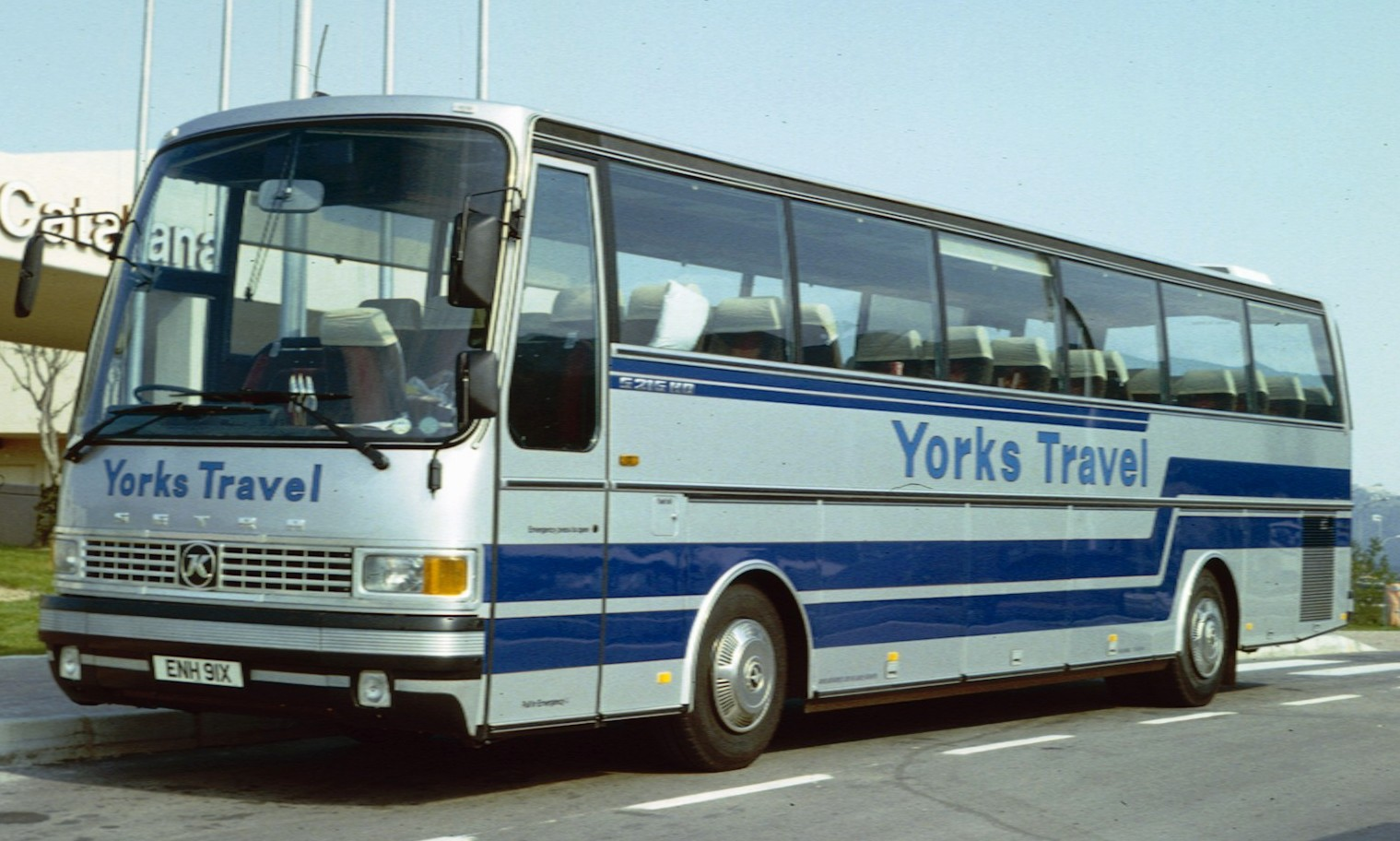 Kässbohrer Setra 215 HD in Spain. Yorks Travel operator.